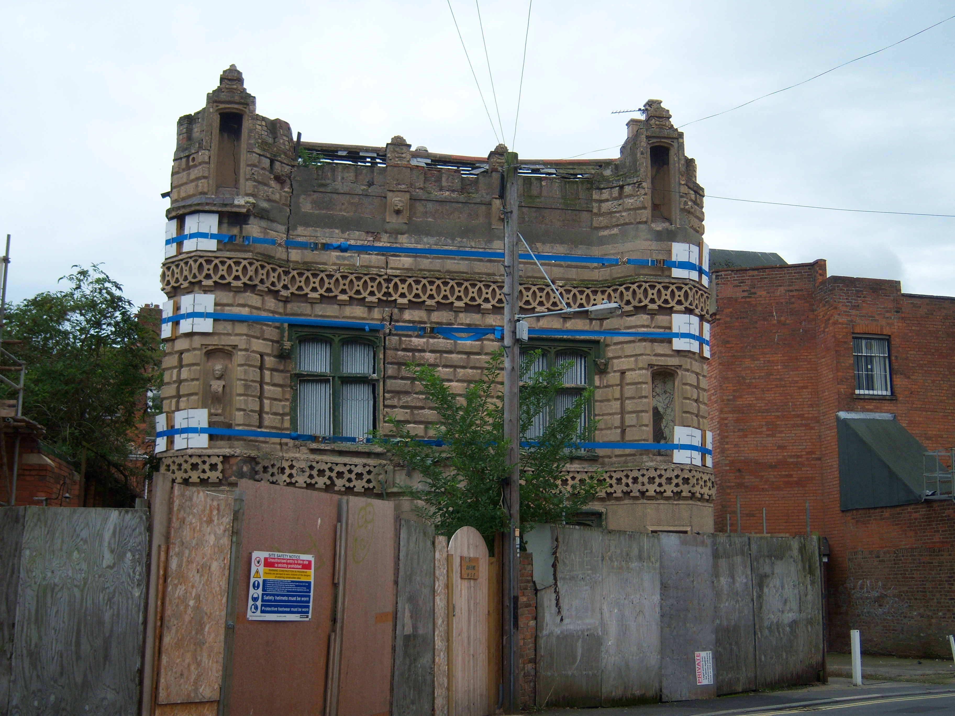 Castle House, Bridgwater, Somerset, England in 2008, showing webbing in place to reduce crumbling.